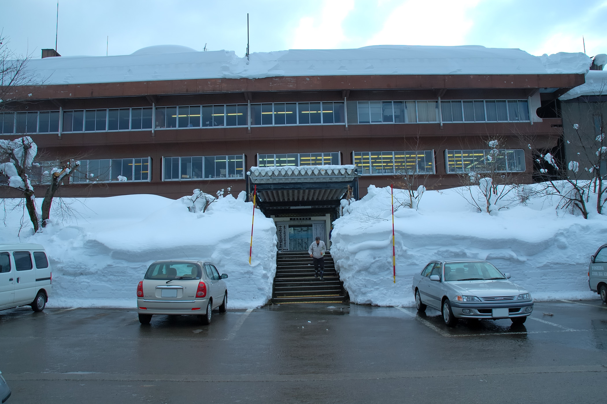 Tokamachi City hall (十日町市市役所、2006年冬)